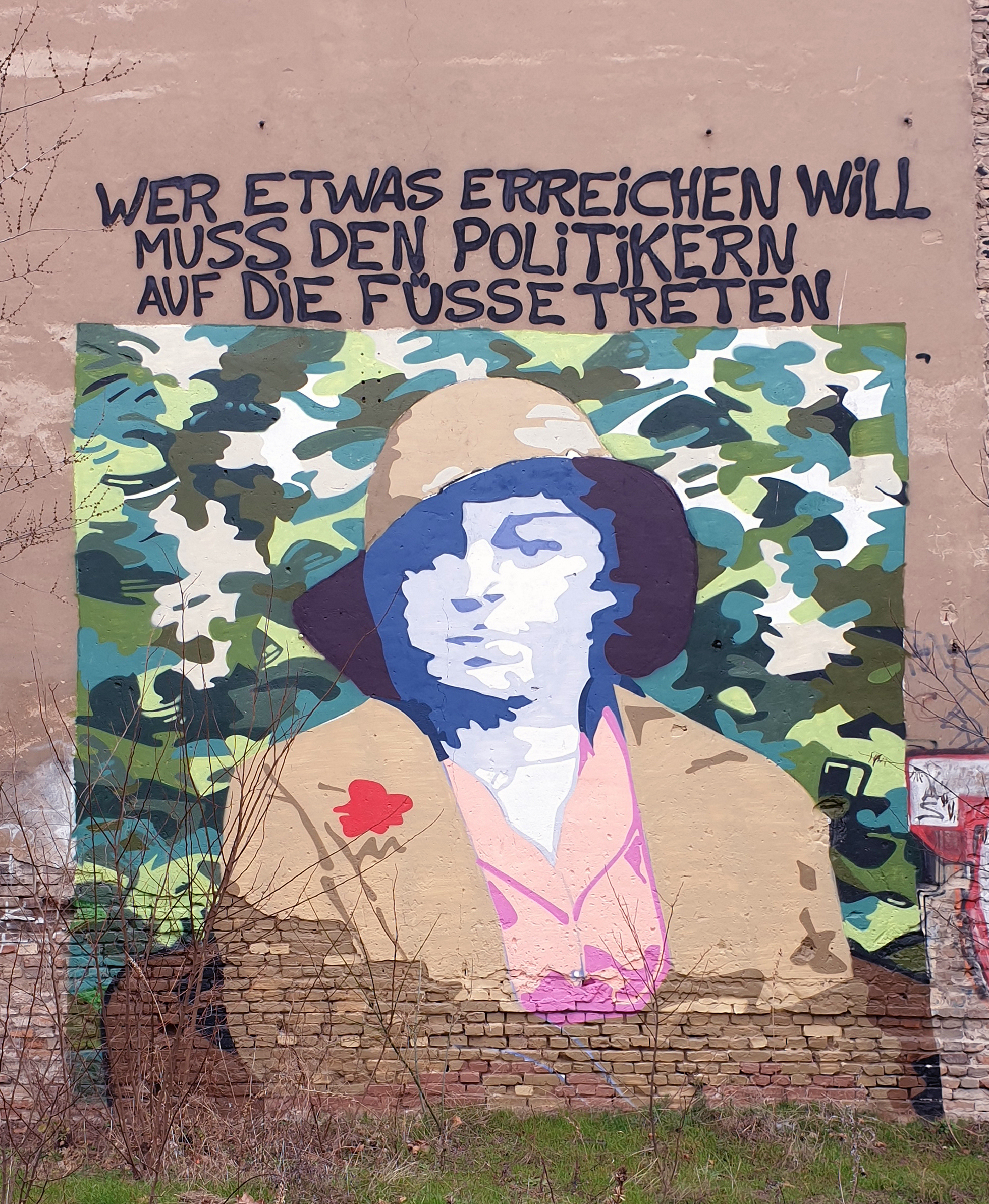 Murals, Klara Franke "Wer etwas erreichen will..", Lehrter Straße 35, Berlin-Moabit, Germany